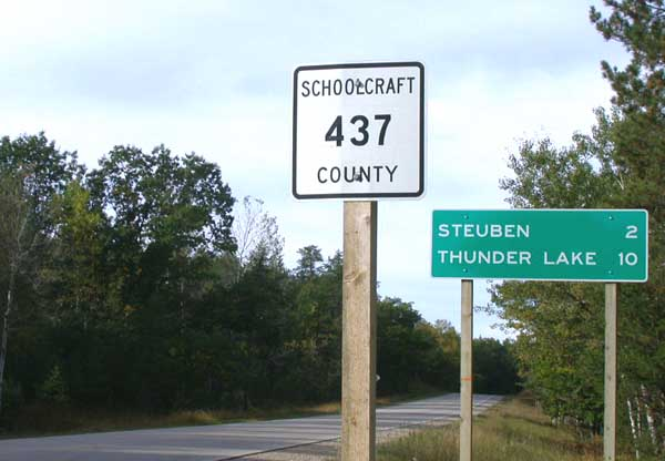 County road in Schoolcraft County, Michigan (taken Sept. 30, 2004) © 2004 Matthew Trump